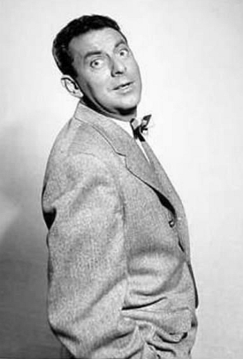 Publicity photo of George O'Hanlon from The Life of Riley television series, where he had a continuing role as Clavin Dudley. O'Hanlon also wrote the script for this episode.